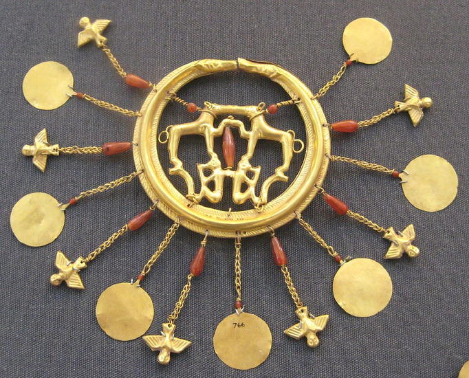 A large Minoan gold earring. (British Museum)